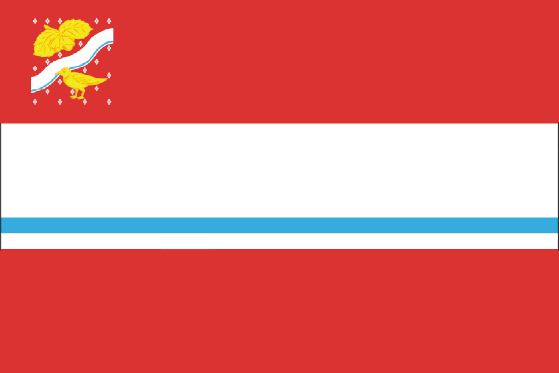 Orekhovo-Zuevo (Moscow oblast), flag